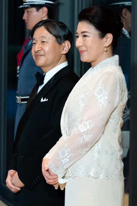 Emperor Naruhito and Empress Masako of Japan await the arrival of President Donald J. Trump and First Lady Melania Trump to the State Banquet Monday, May 27, 2019, at the Imperial Palace in Tokyo. (Official White House Photo by Andea Hanks)